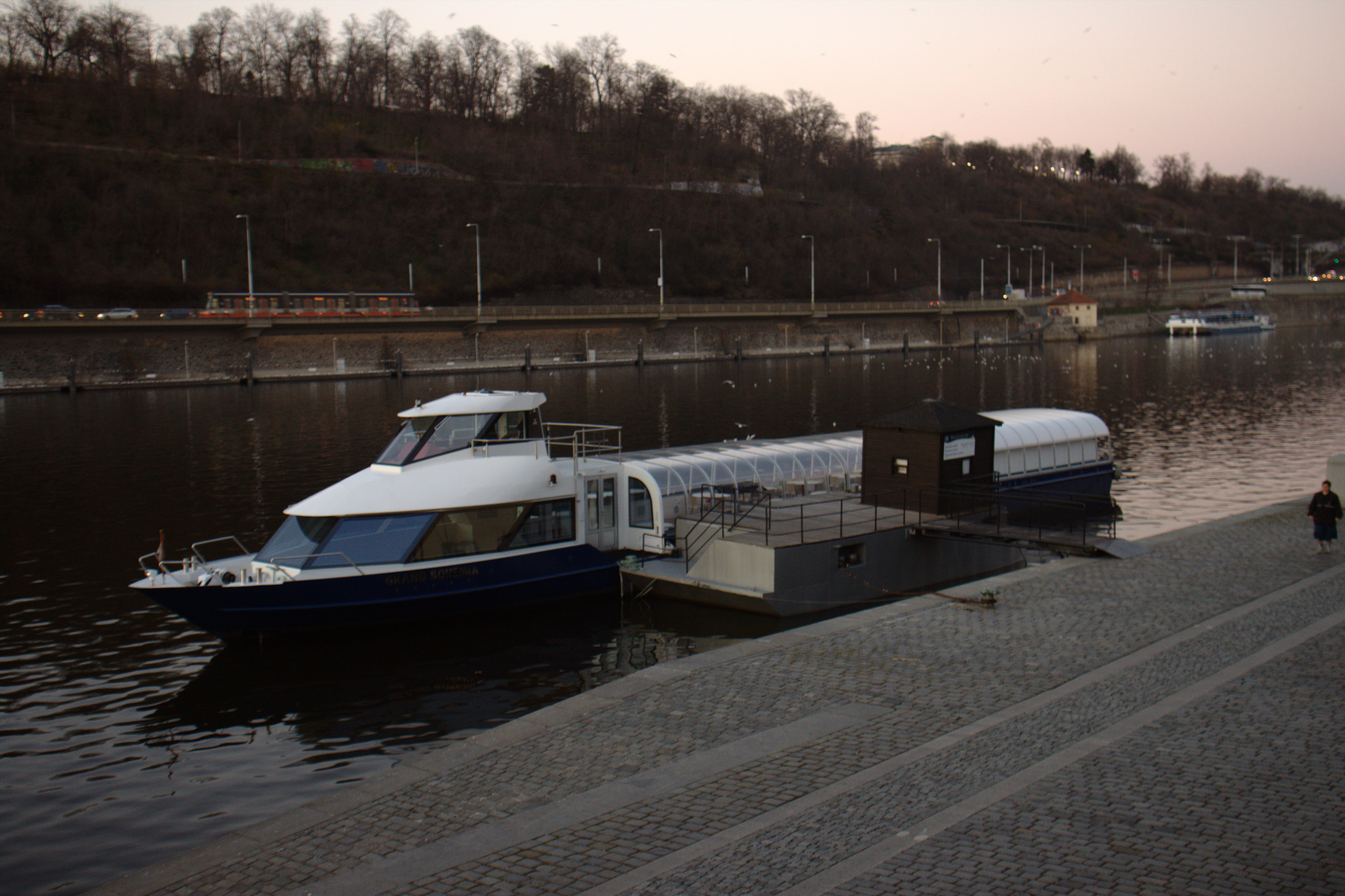 The ship named Grand Bohemia, built by Schiffswerft Bolle, on the Vltava River at Dvořákovo nábřeží quay, Prague, CZ